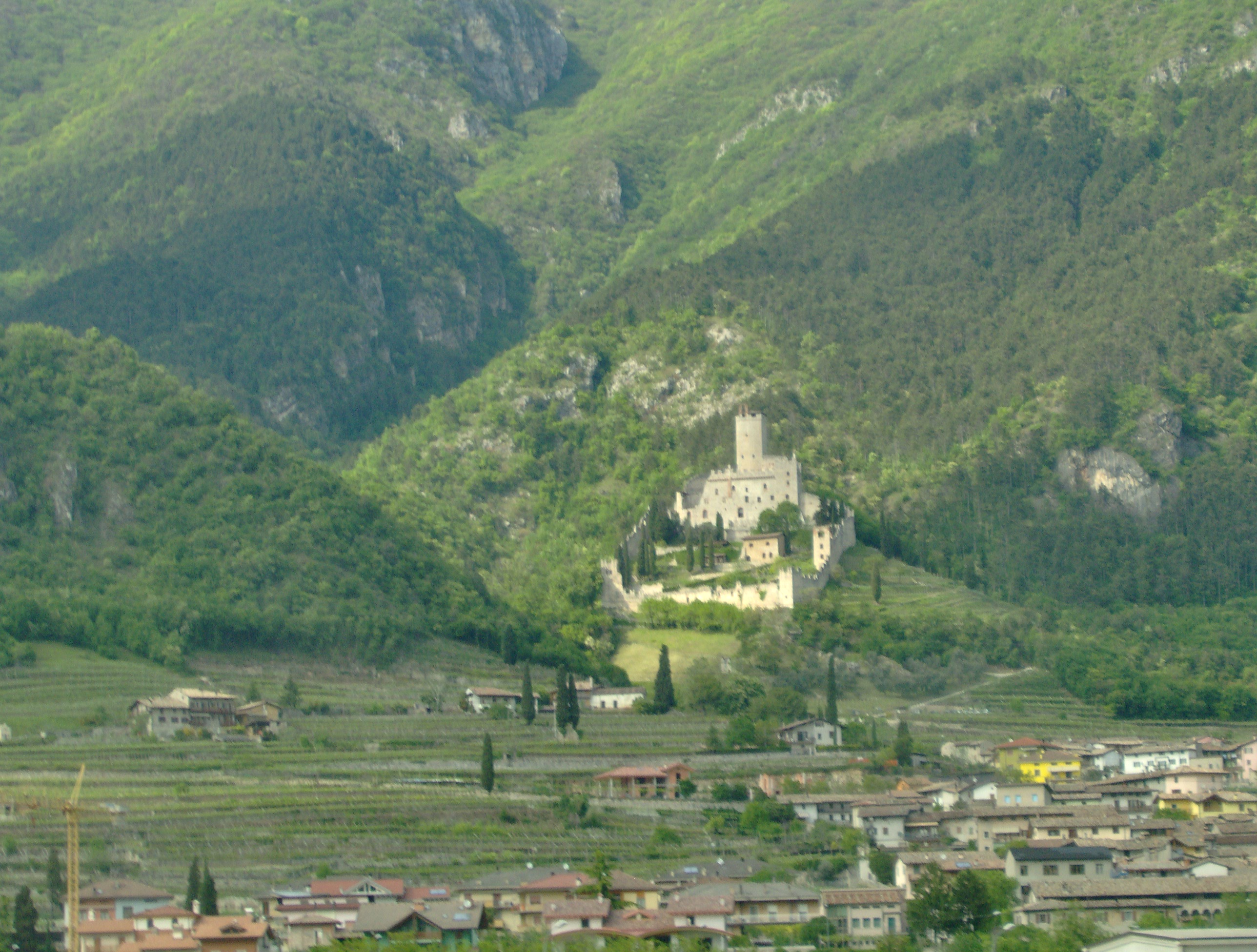 The castle of Avio (Trente, Italy) seen from the highway A22 (Autostrada del Brennero)